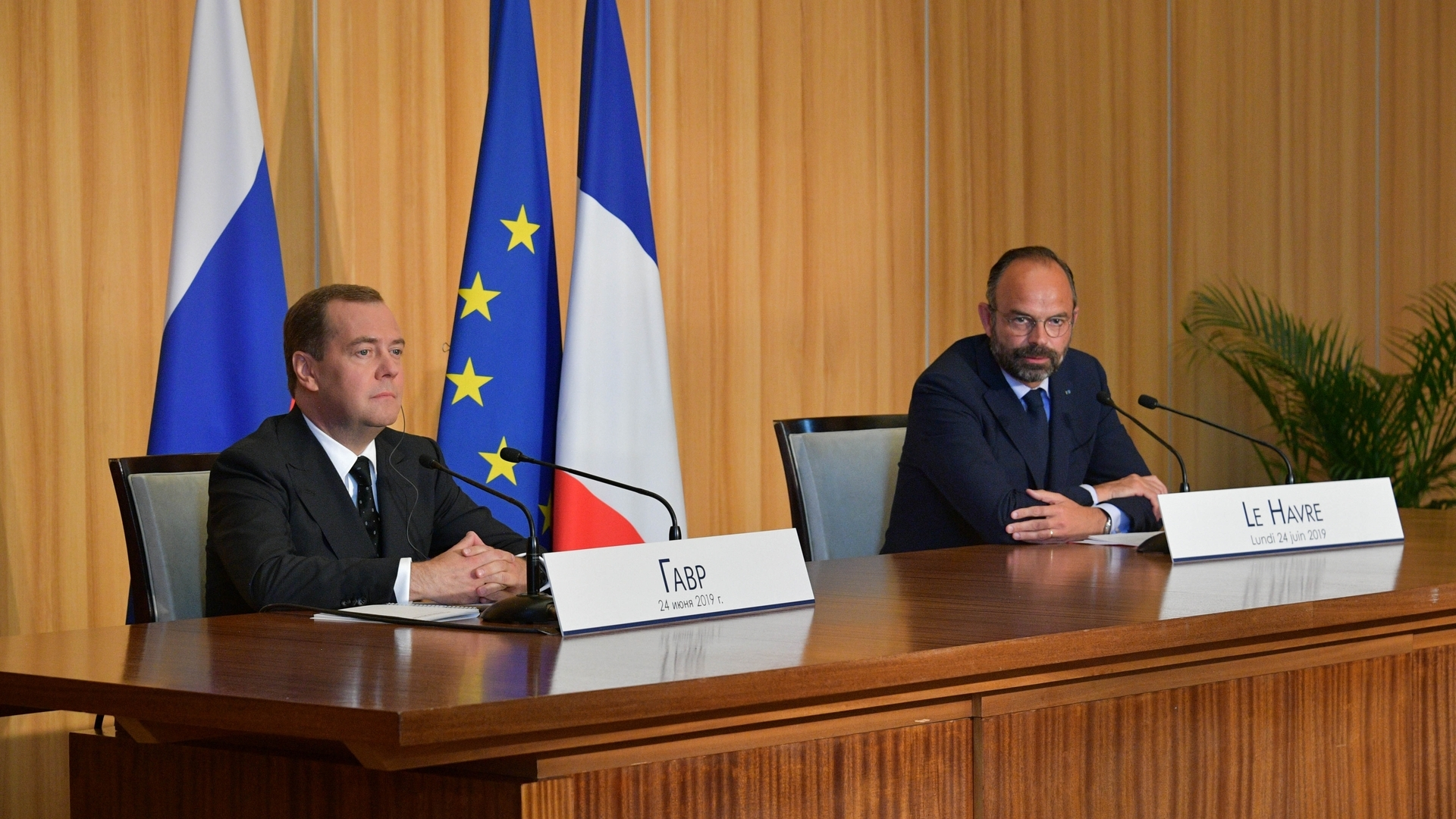 Russian Prime Minister Dmitry Medvedev and French Prime Minister Édouard Philippe in Le Havre on 24 June 2019